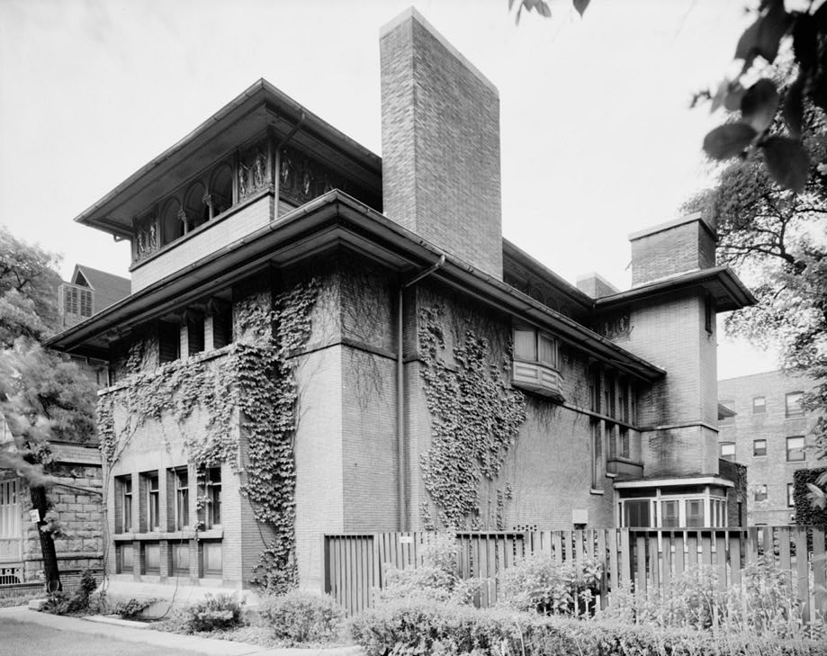 Main Entrance - South Elevation, Heller House, 5132 South Woodlawn Avenue, Chicago, Cook County, IL